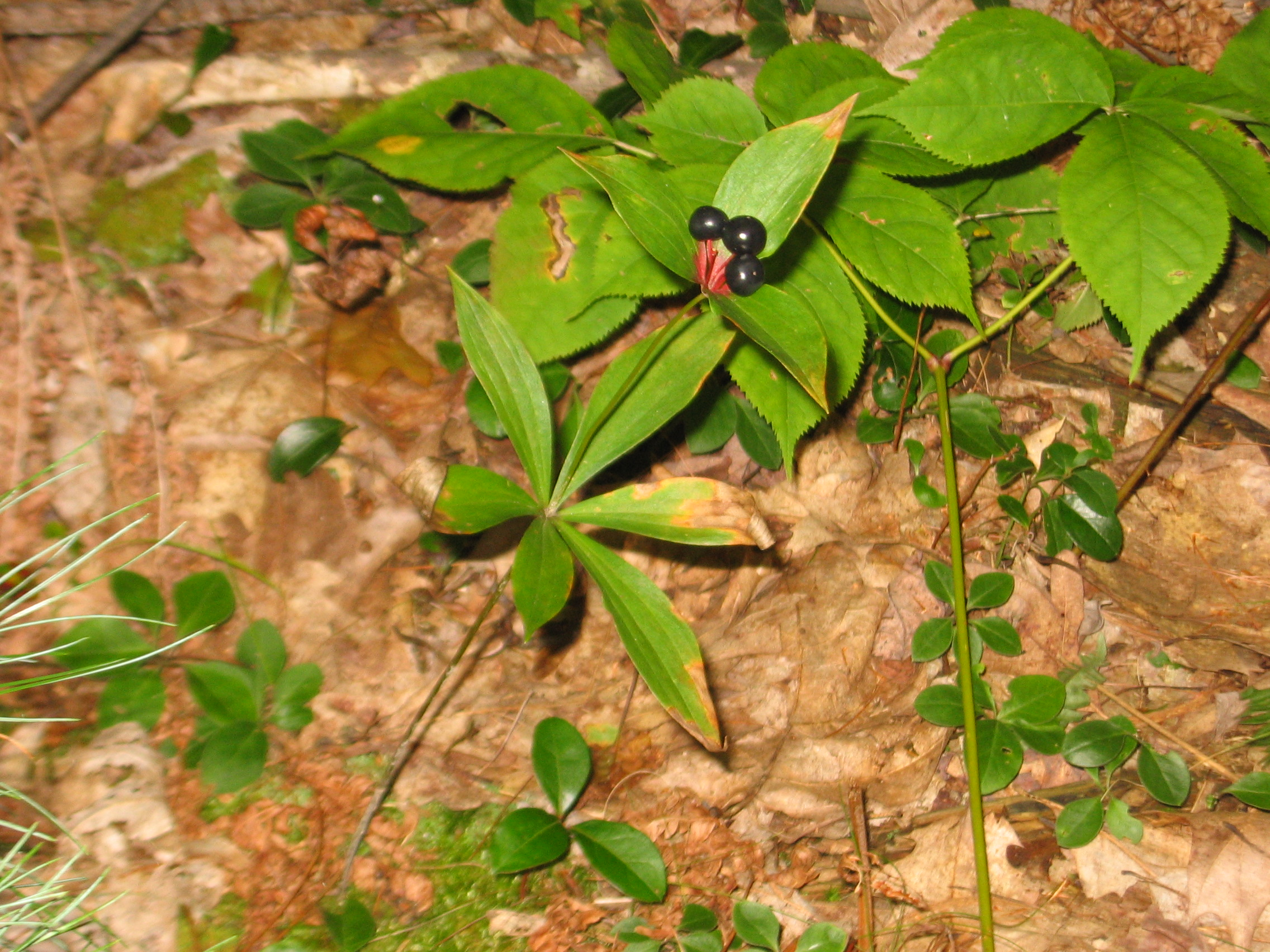 Photo of a Medeola virginiana specimen, showing the two-tiered form with berries.